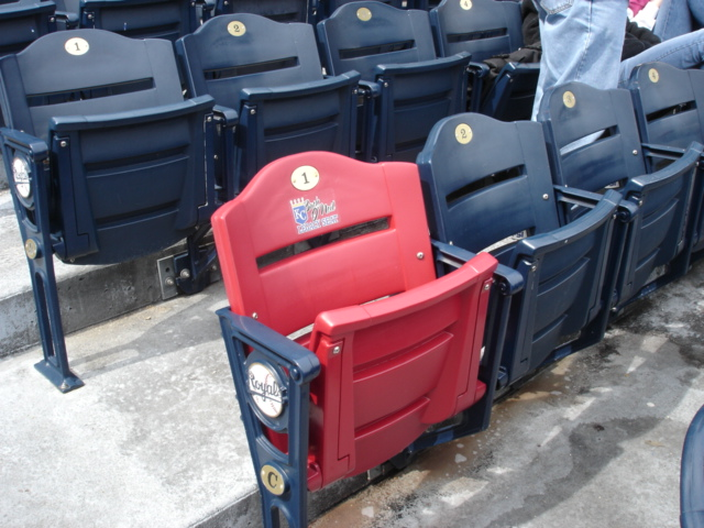 The Buck O'Neil Legacy Seat. Taken by myself.